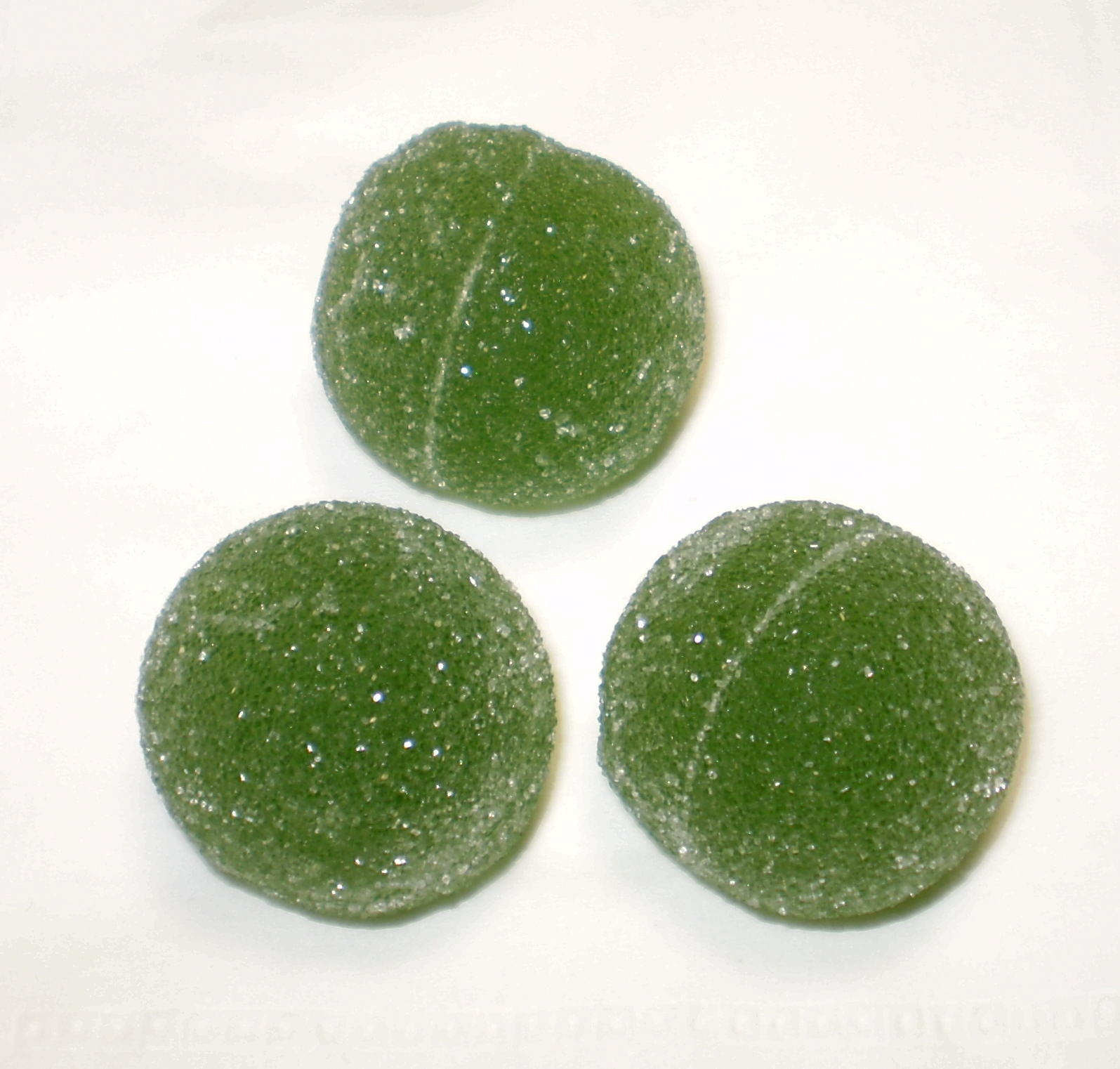 Green marmelade balls.